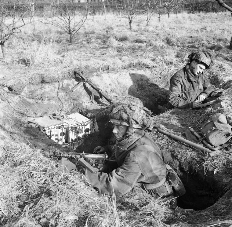 Airborne troops man a trench with a No. 76 wireless set and R109 general purpose receiver, Heldon in Holland, 3 February 1945.